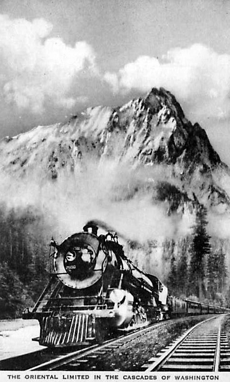 Postcard photo of the Great Northern Railway's "Oriental Limited" in the Cascade Mountains of Washington state.